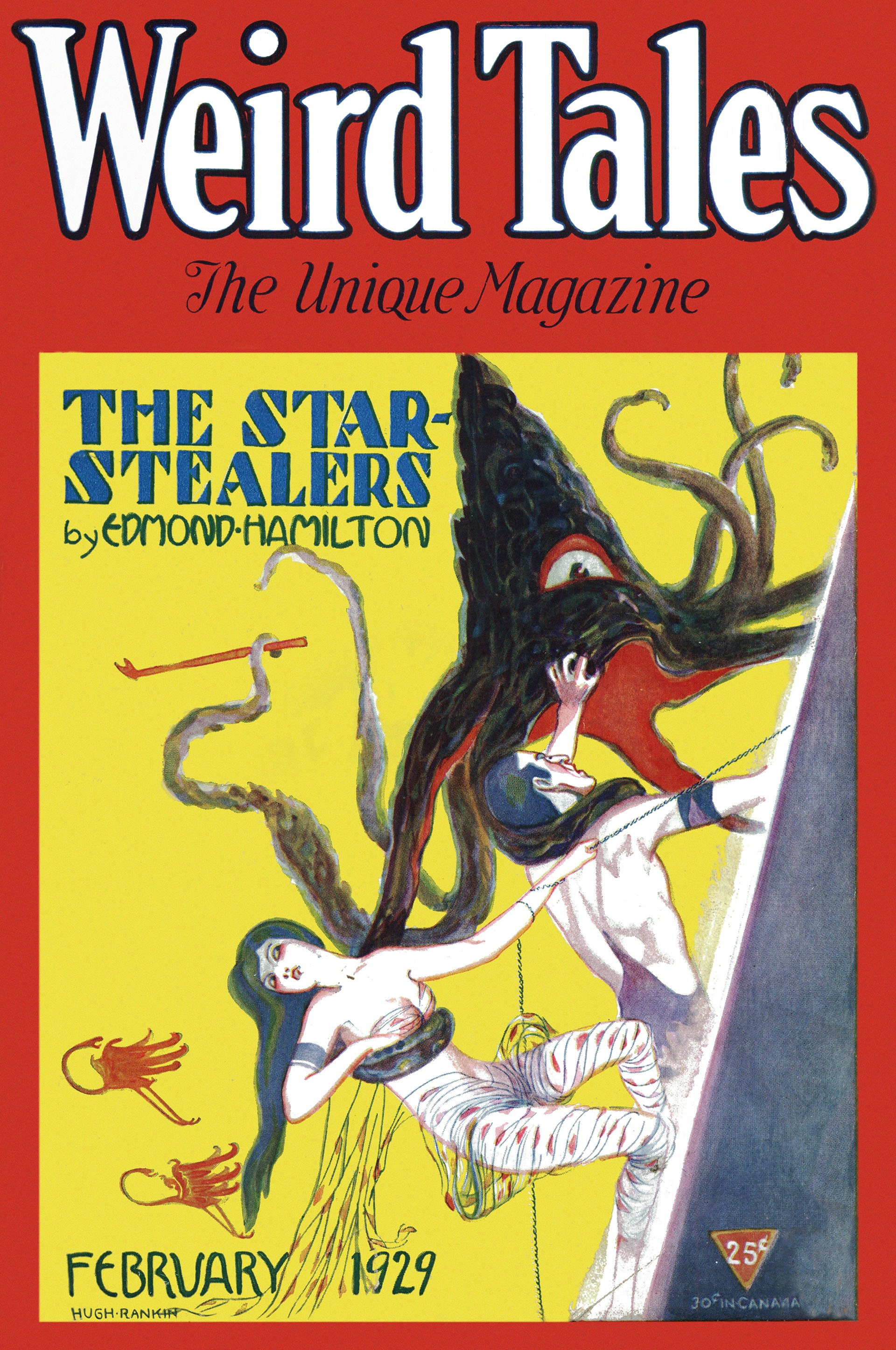 Cover of the pulp magazine Weird Tales (February 1929, vol. 13, no. 2) featuring The Star-Stealers by Edmond Hamilton. Cover art by Hugh Rankin.